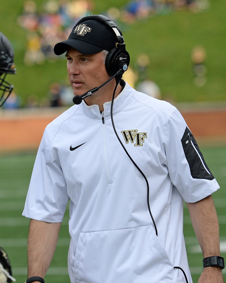 Dave Clawson, head football coach at Wake Forest University, 2014-present.